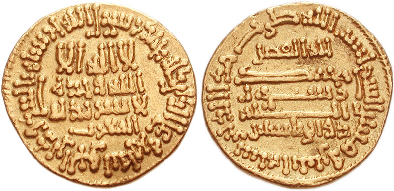 ISLAMIC, 'Abbasid Caliphate. Al-Ma'mun. AH 199-218 / AD 813-833. AV Dinar (18mm, 4.26 g). Misr (Cairo) mint; al-Sari, governor. Dated AH 202 (AD 815). Kalima in three lines across field; "al-Maghrib" below; Umayyad second symbol in outer margin / Continuation of Kalima in three lines across field; "al-Fadl" above; "Dhu'l Riyasatayn" below; mint formula and AH date in outer margin. Kazan 120; Album 222.7 var. (citing Tahir instead of al-Fadl). Good VF.